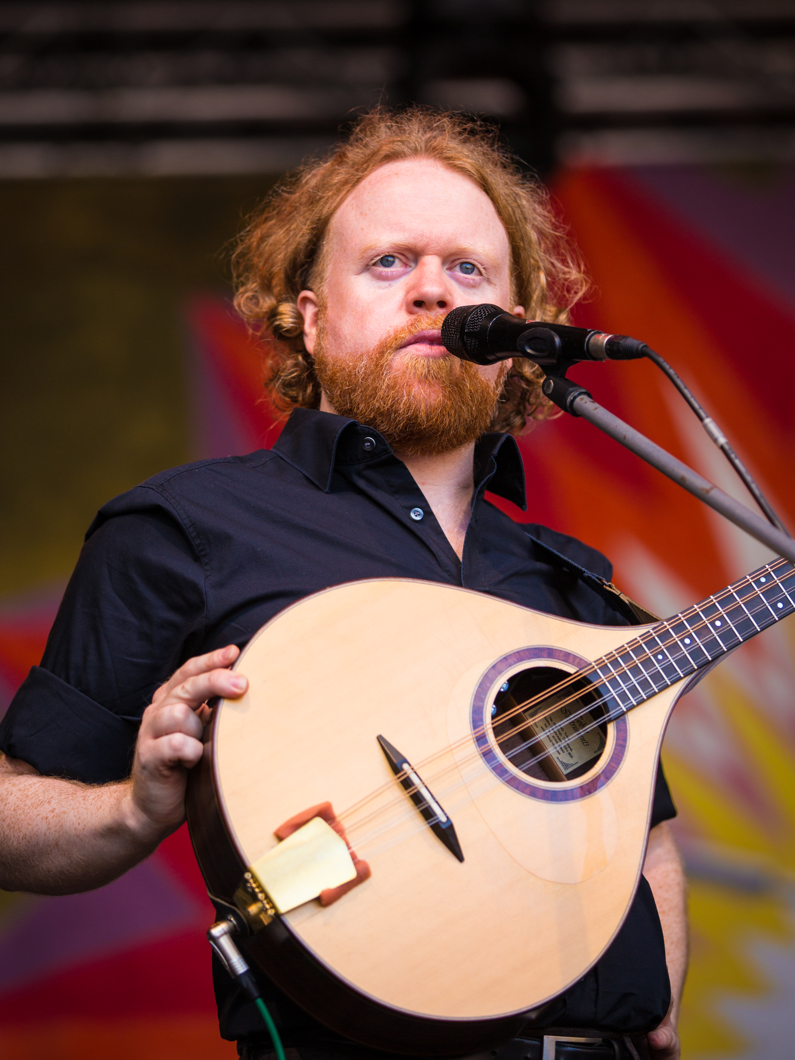 Scottish folk musician Steve Byrne at the Rudolstadt Festival 2017